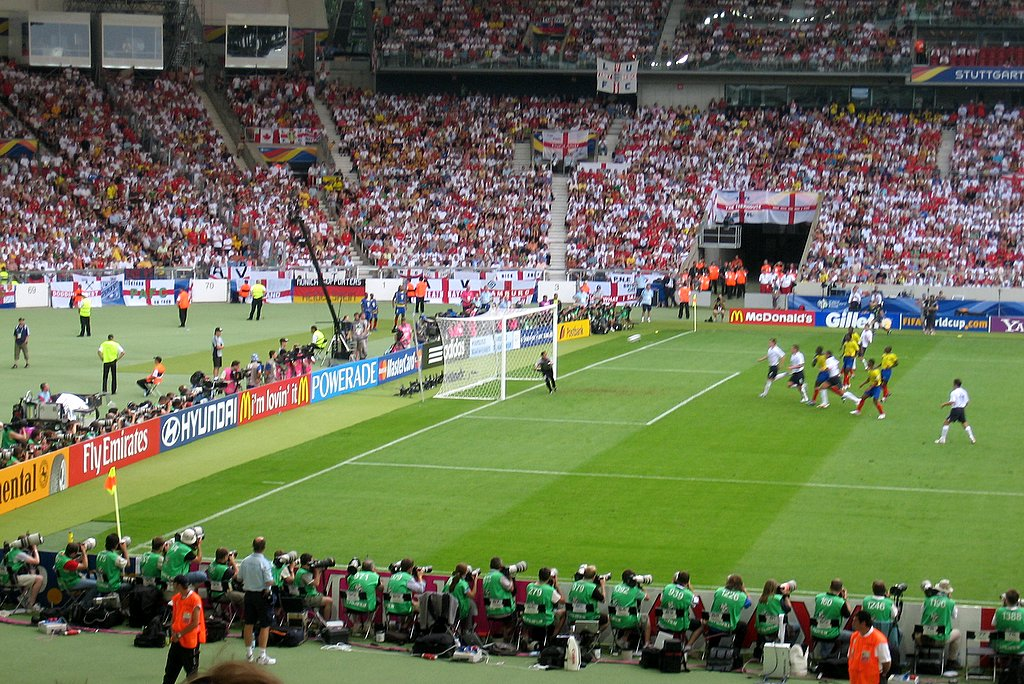 World Cup - Goal!! Beckham's free kick curling into the bottom left corner! England 1 - 0 EcuadorWorld Cup - Goal!!